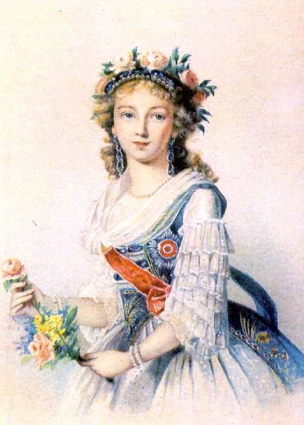 Portrait of Elizabeth Alexeievna (1779-1826)